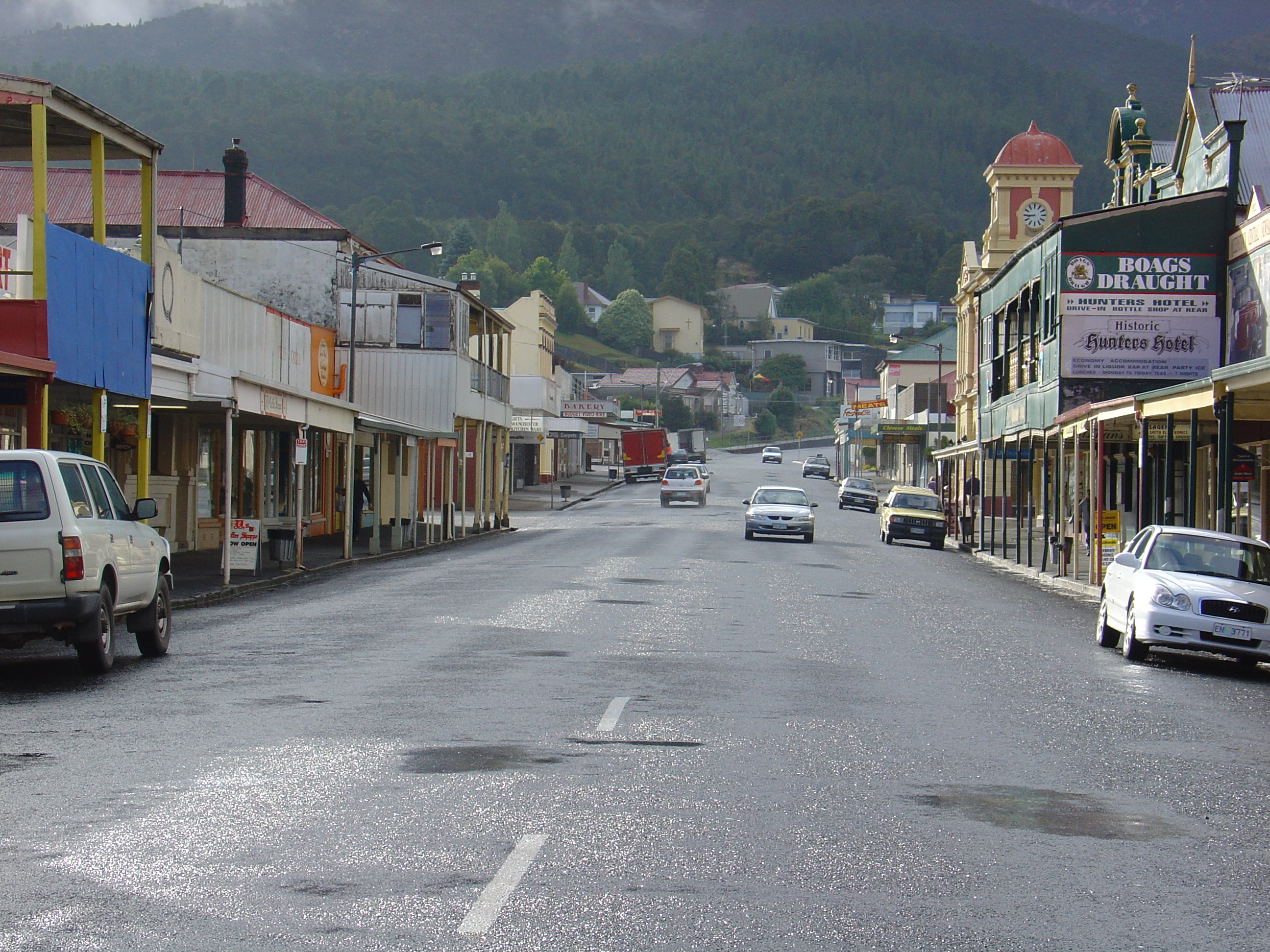 Looking east up Orr Street Queenstown, Tasmania